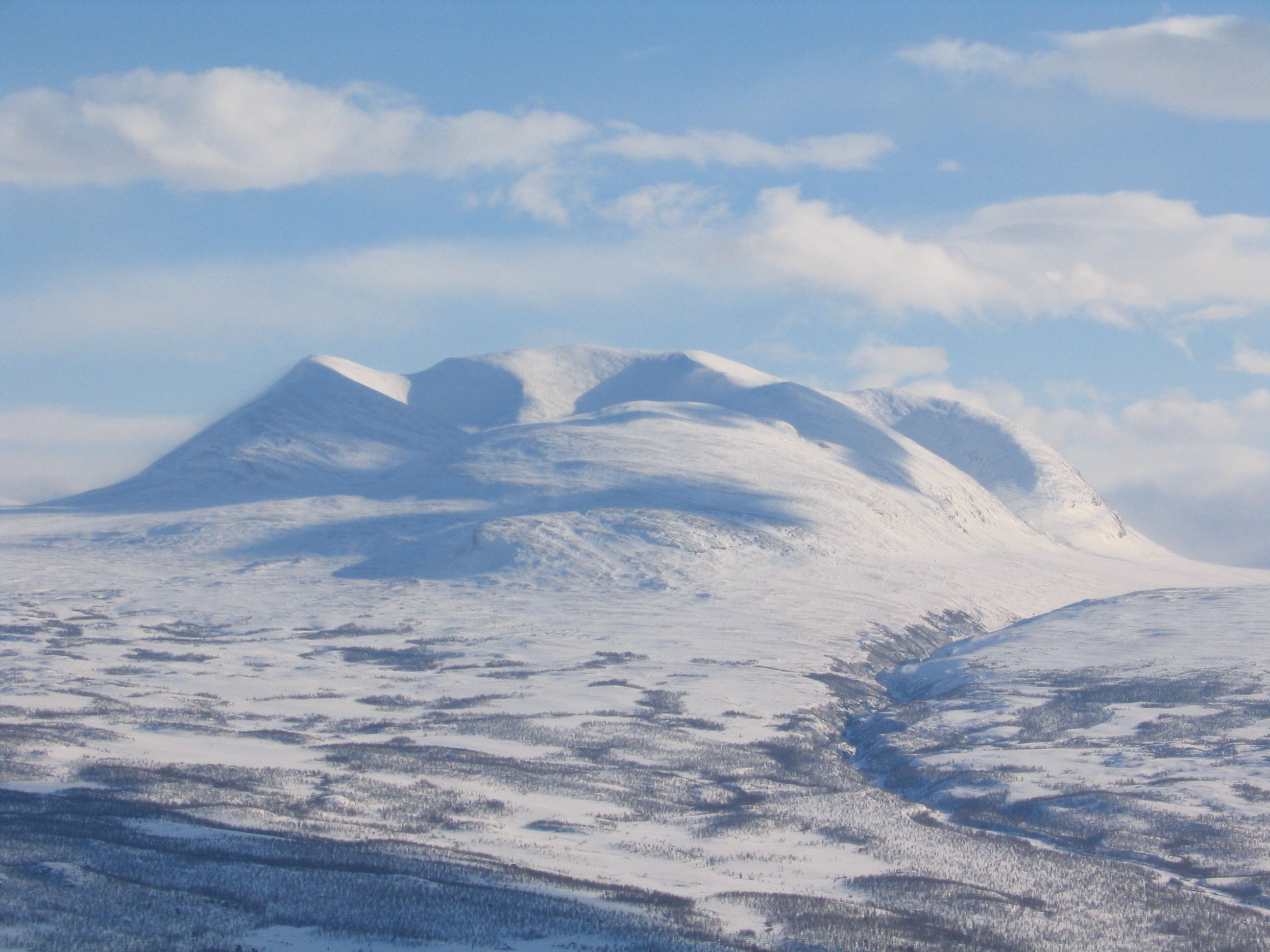 Photo of Abisko National Park, Lapland, Sweden in March 2006, taken by me from the summit of Mt. Nuolja. Original source and more photos here. The mountain in the center of the picture is Nissuntjårro.